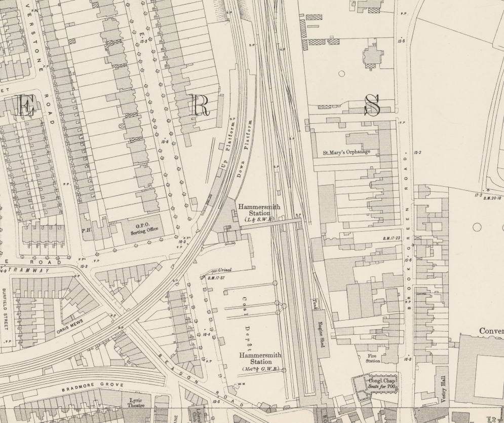 Location of the London and South Western Railway's Hammersmith (Grove Road) railway station, Hammersmith on an Ordnance Survey Map. The station was opened in 1869 and closed in 1916 and the station site and the tracks have been built over.